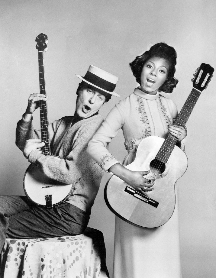 Photo of Dick Van Dyke and Leslie Uggams from The Leslie Uggams Show.